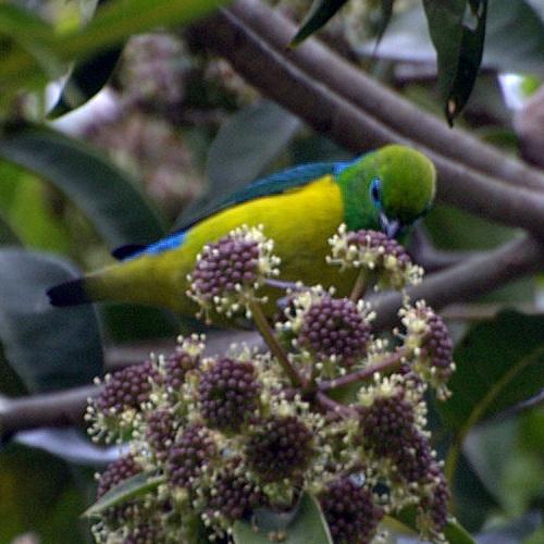 Blue-naped Chlorophonia (Chlorophonia cyanea) male.